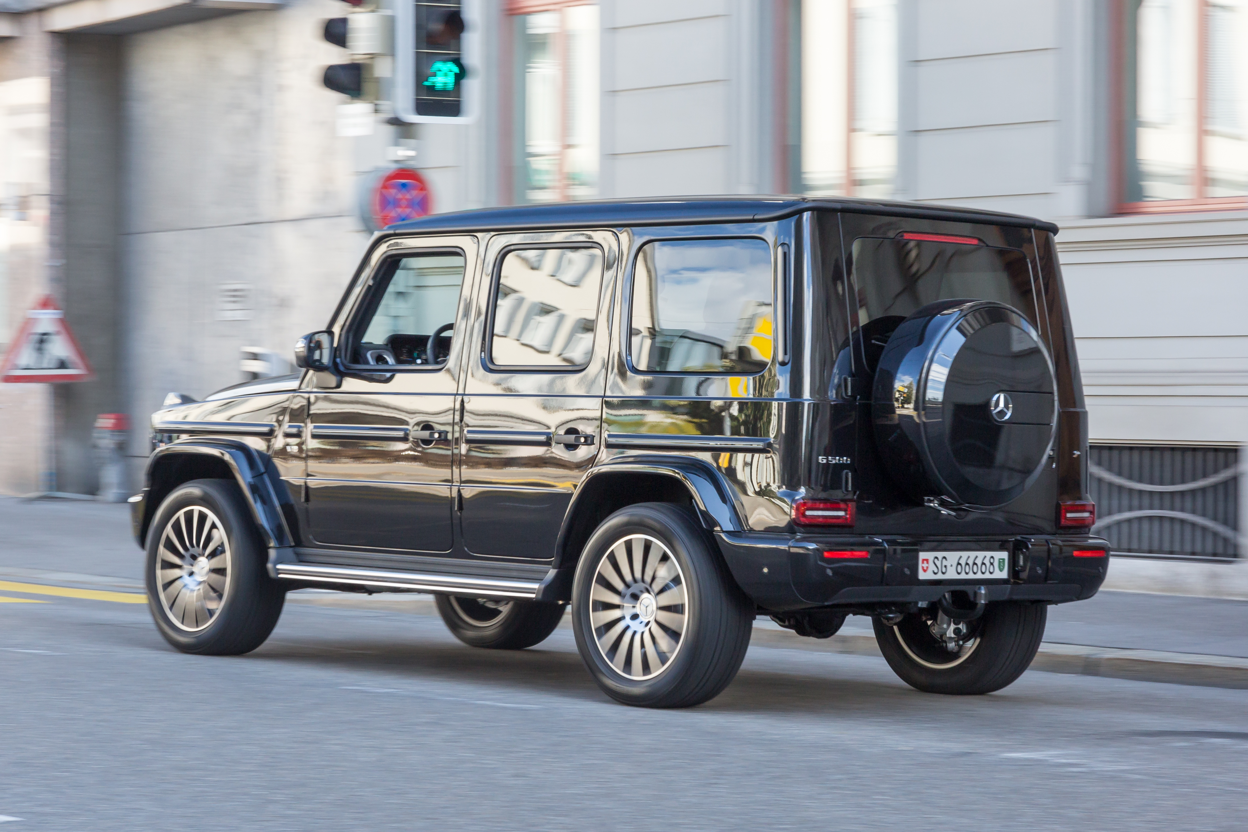 Mercedes-Benz G 500